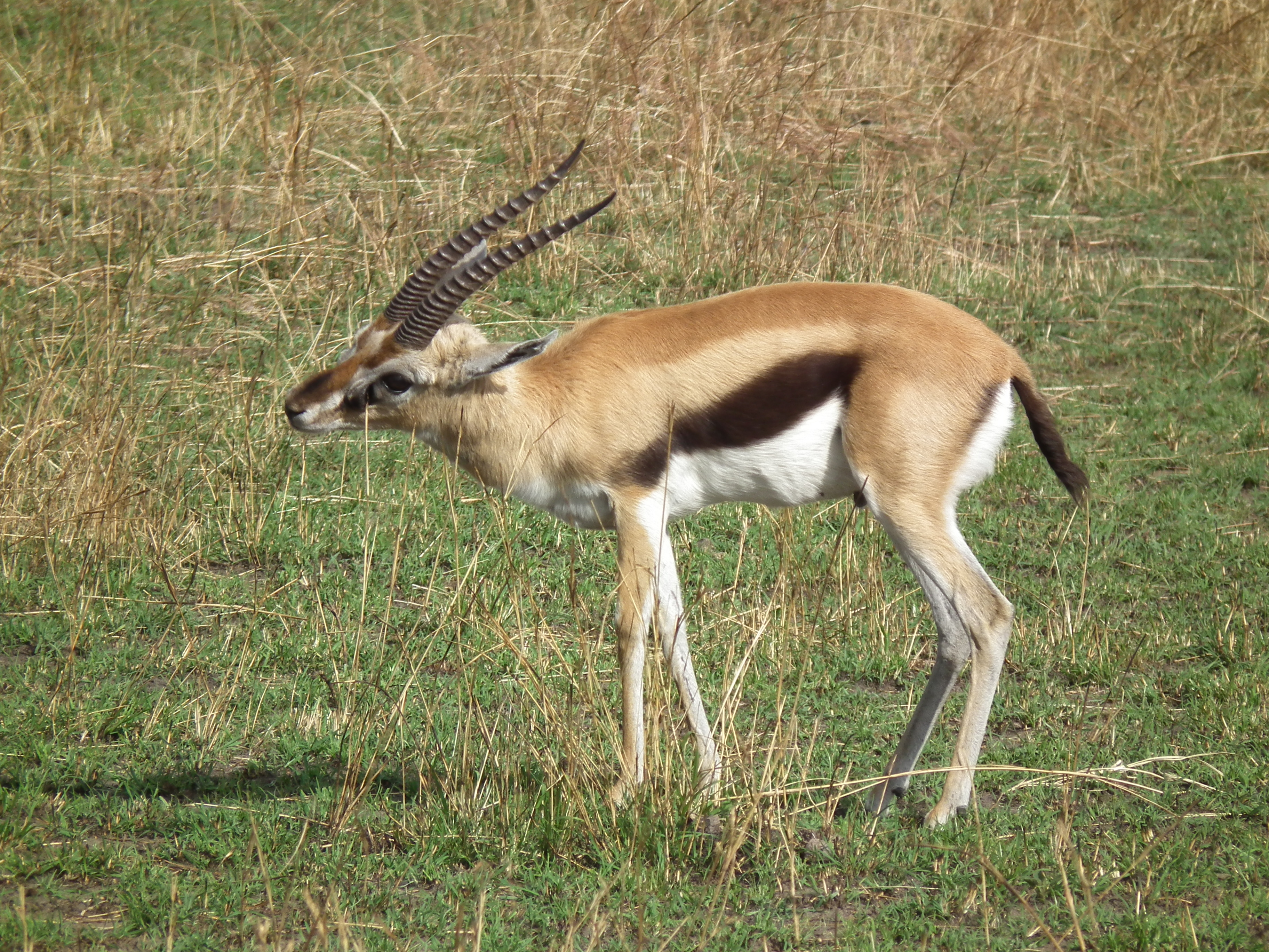 Thomson's Gazelle, Gazella thomsonii, picture taken in Tanzania